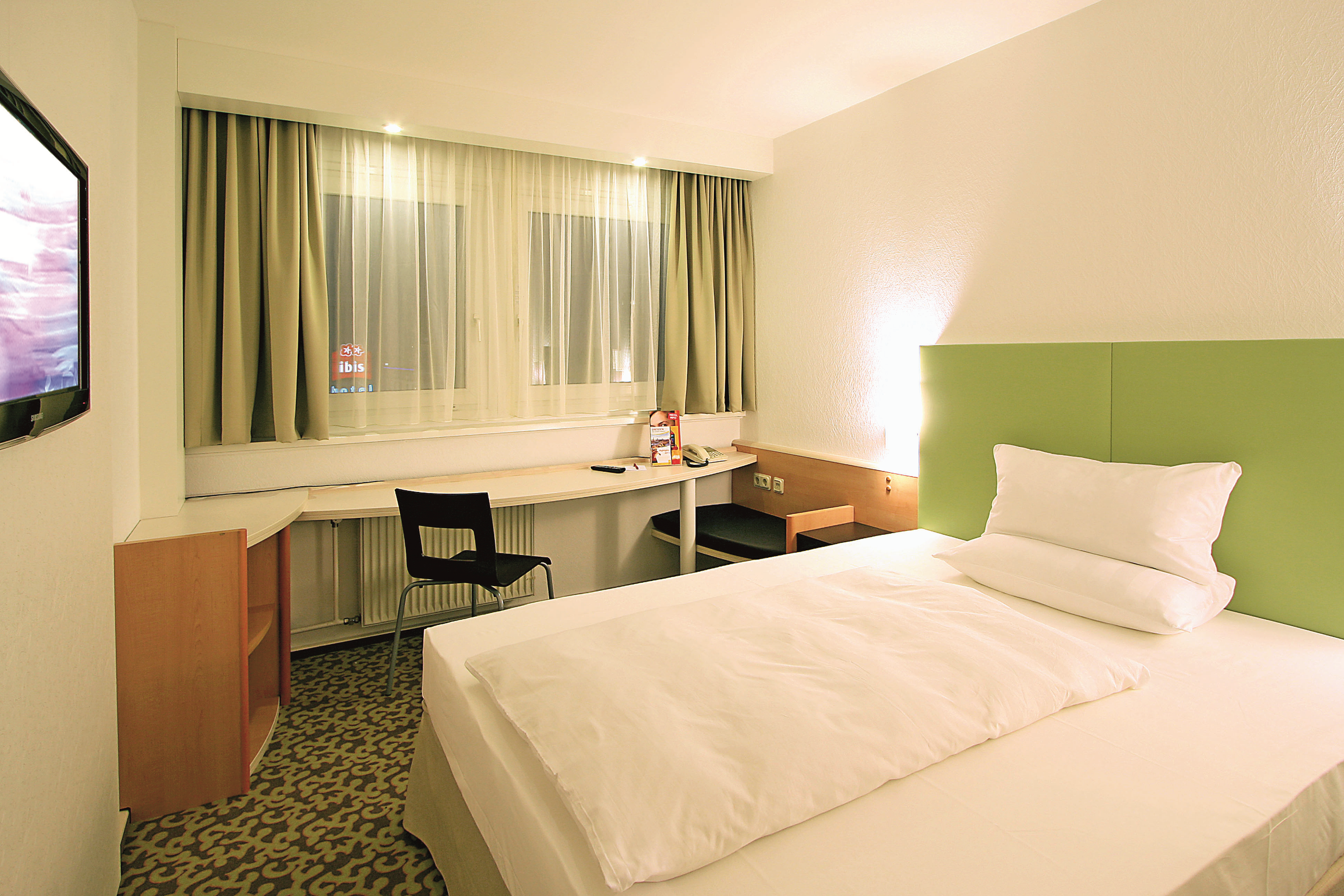 ibis Hotels Dresden Single Room Standard Queen Size Bed